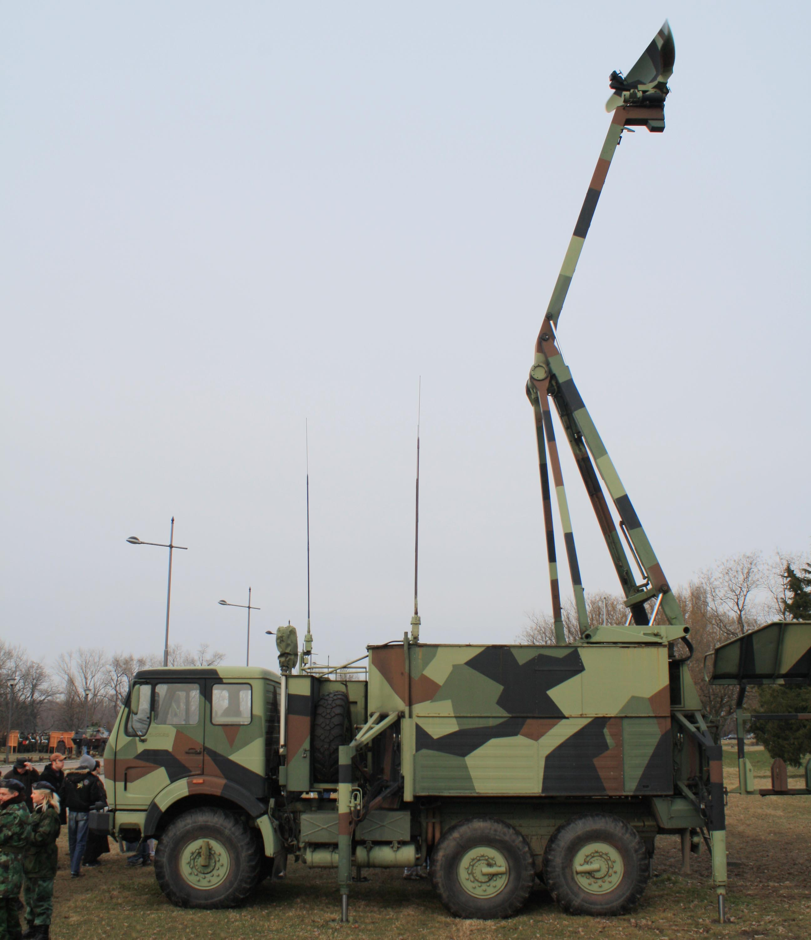 M85 Žirafa Ericsson radar mounted on FAP 2026 truck of Serbian Army Air Defense on display after military exercise "Ušće 2011".